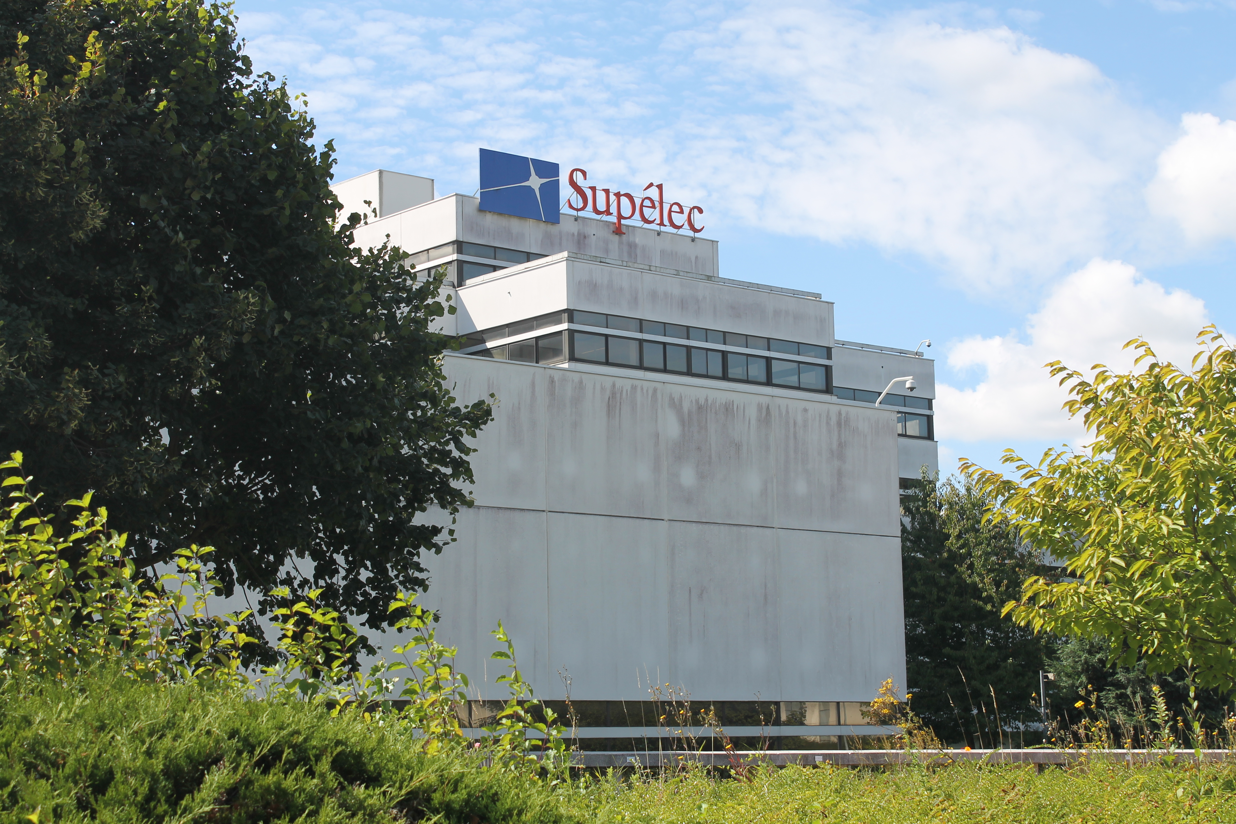 Supélec (school of engineering), in the scientific cluster of Paris-Saclay, France (August 2014).